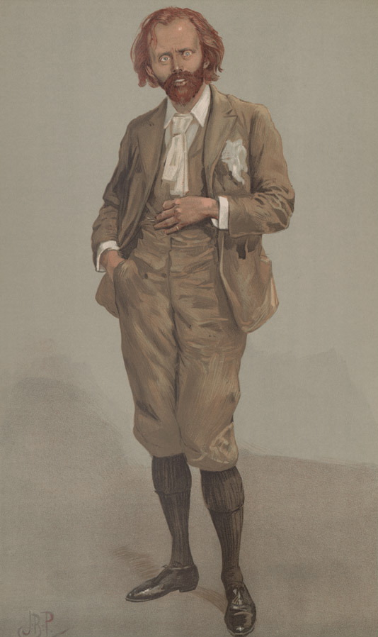 Men of the Day No. 651: Caricature of Hall Caine. Caption read "The Manxman".